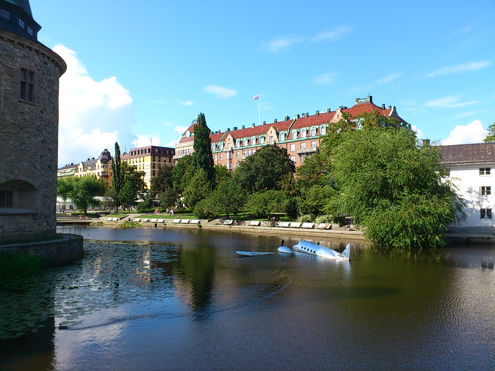 From the exhibition OpenART in Örebro, Sweden, 2011: Göran Hägg: DC3